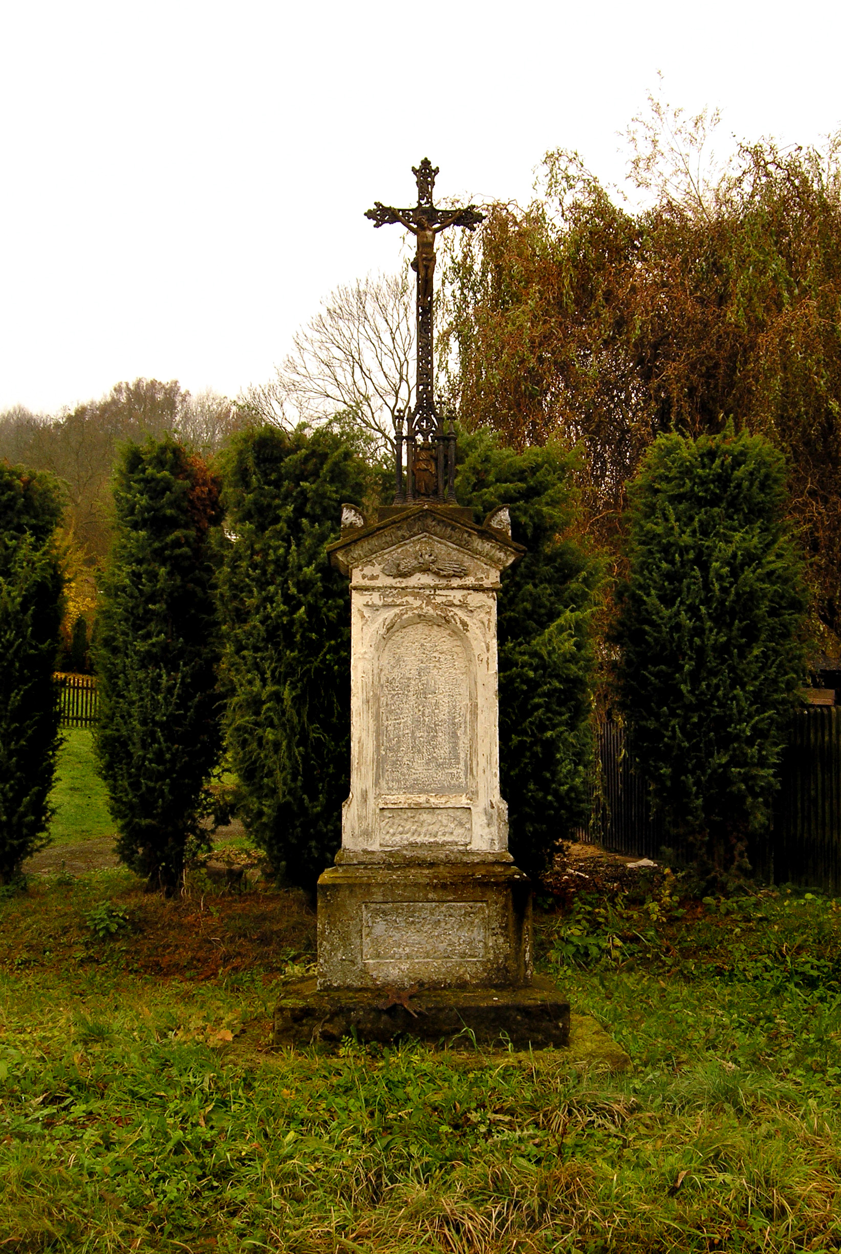 Crucifix in Bořetín, part of Stružnice village, Czech Republic